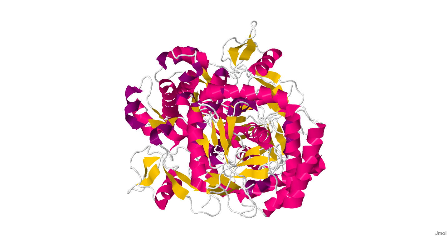 Nitric Oxide Synthase